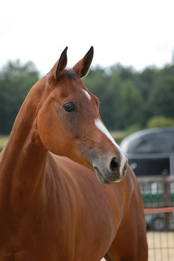 Orphée du Lot, anglo-arabian mare, property of Alexandra Arpino, Ile de France, France